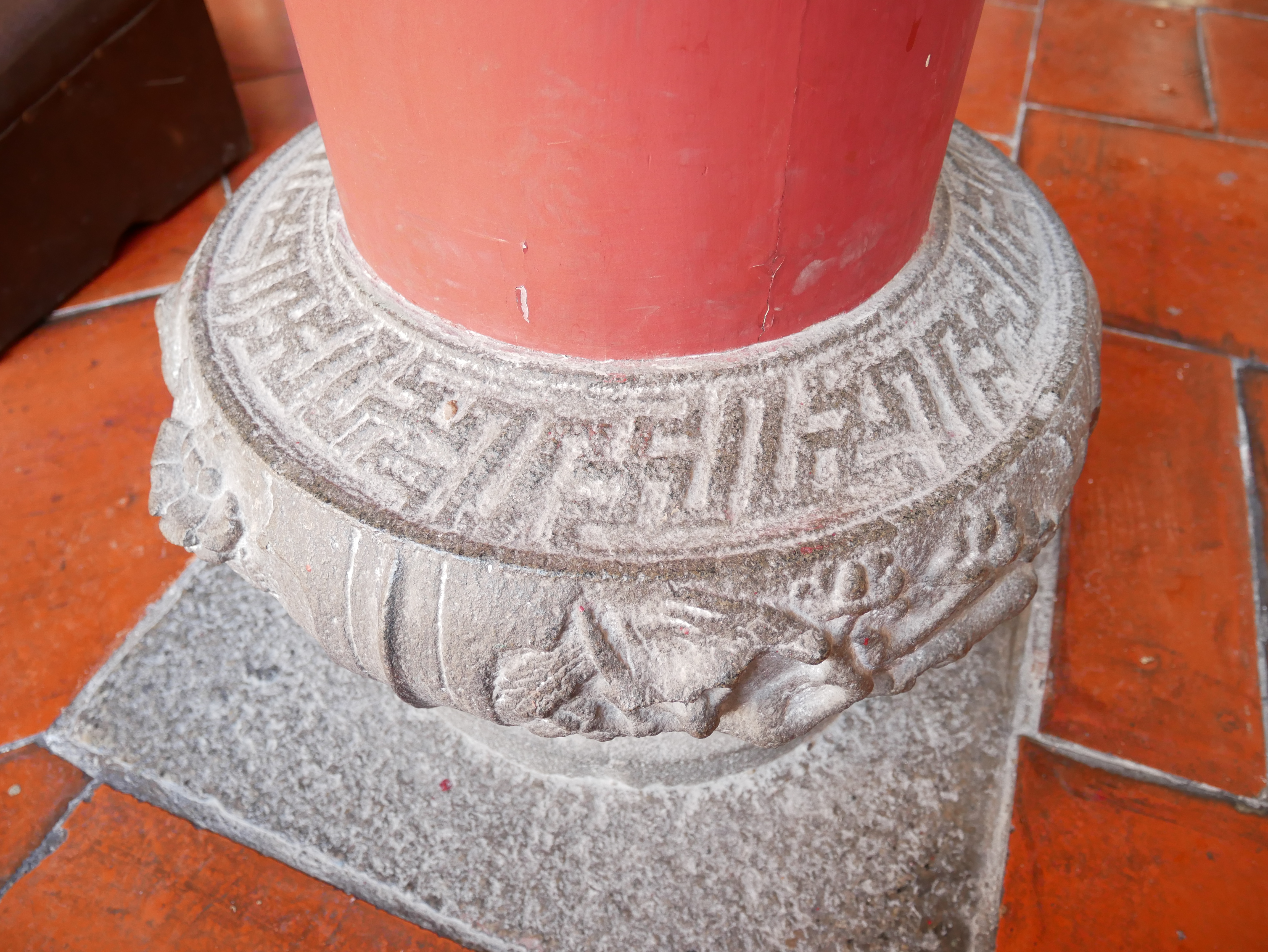 大天后宮三寶殿柱珠，臺南市中西區赤崁里